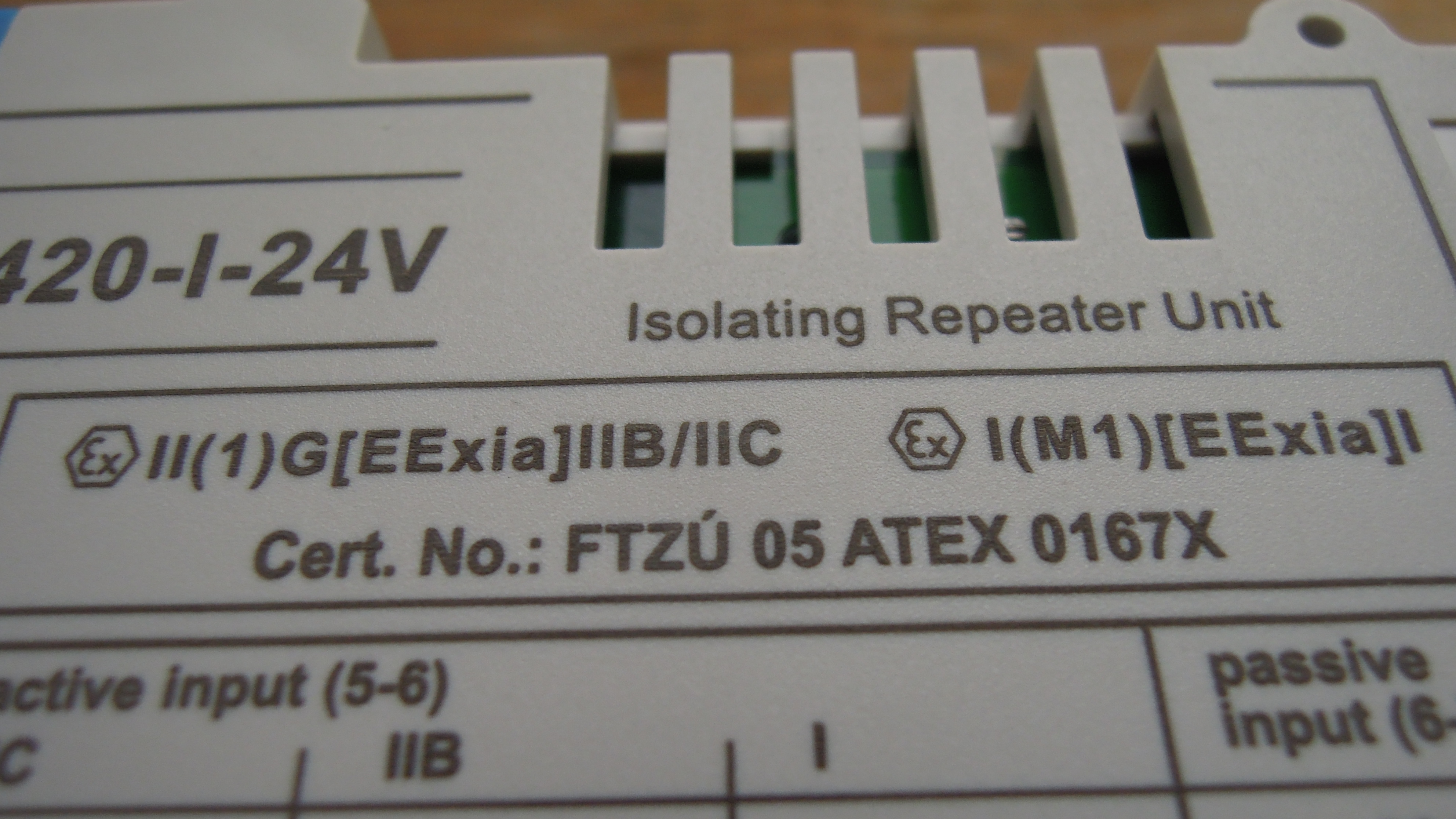 Label on Zener barrier for separation intrinsic safety circuits; electrical equipment can be operated in hazardous area (EX zones)